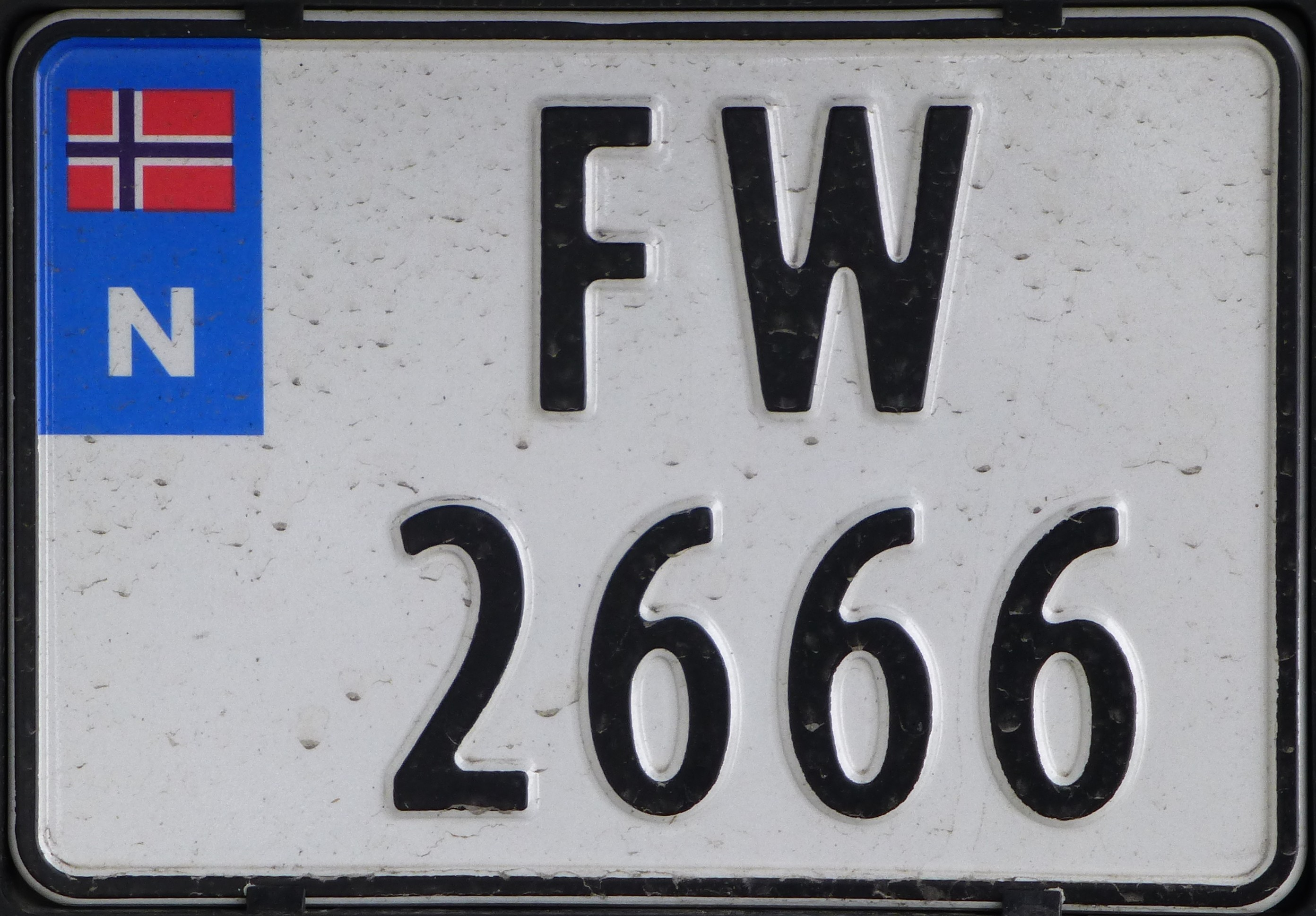 Norwegian license plate for motorcycles, 2006-2008 and again since 2012, FW = Hamar